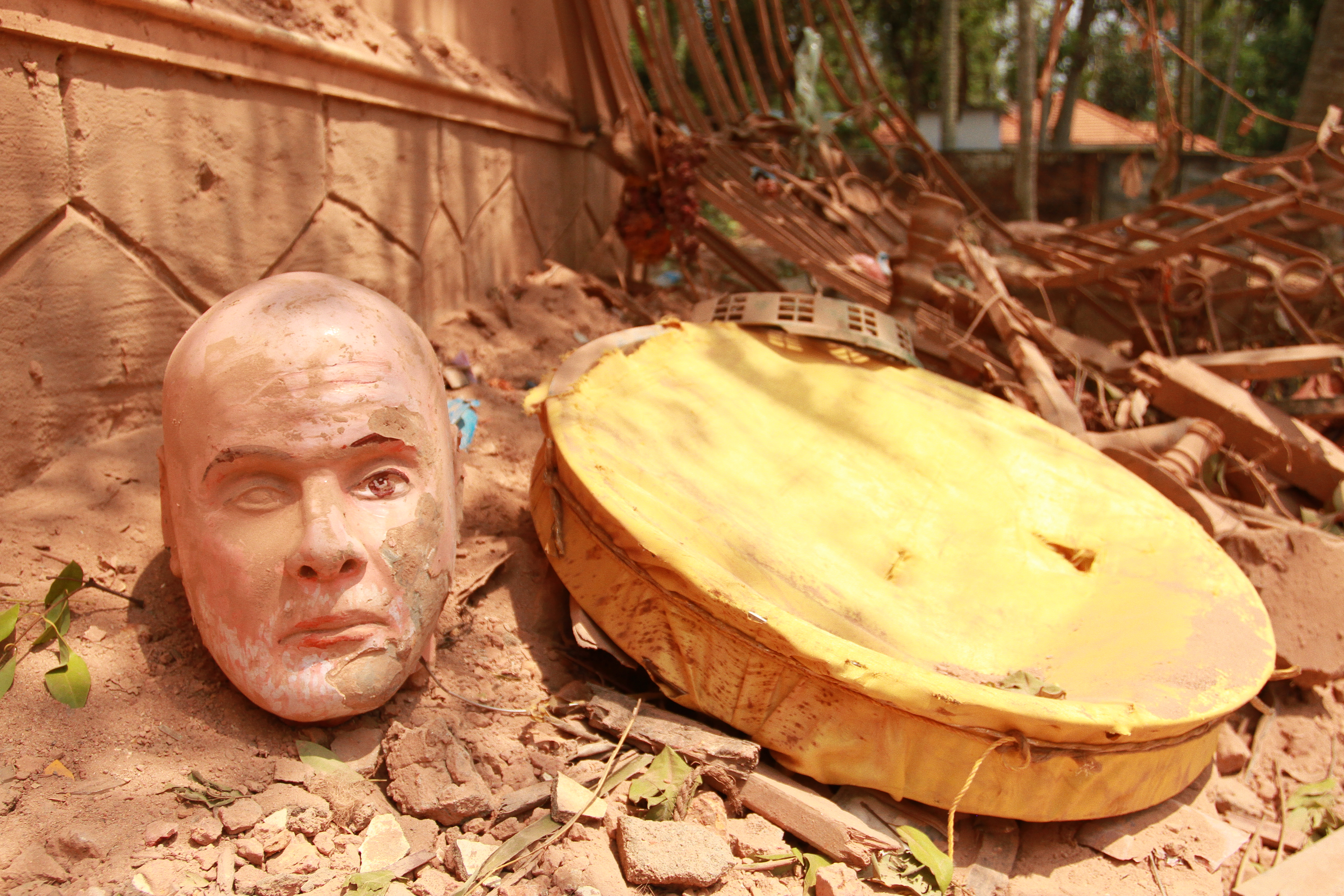 After Kollam Puttingal Temple Firework Mishap April 2016- Sree Narayana Guru statue head